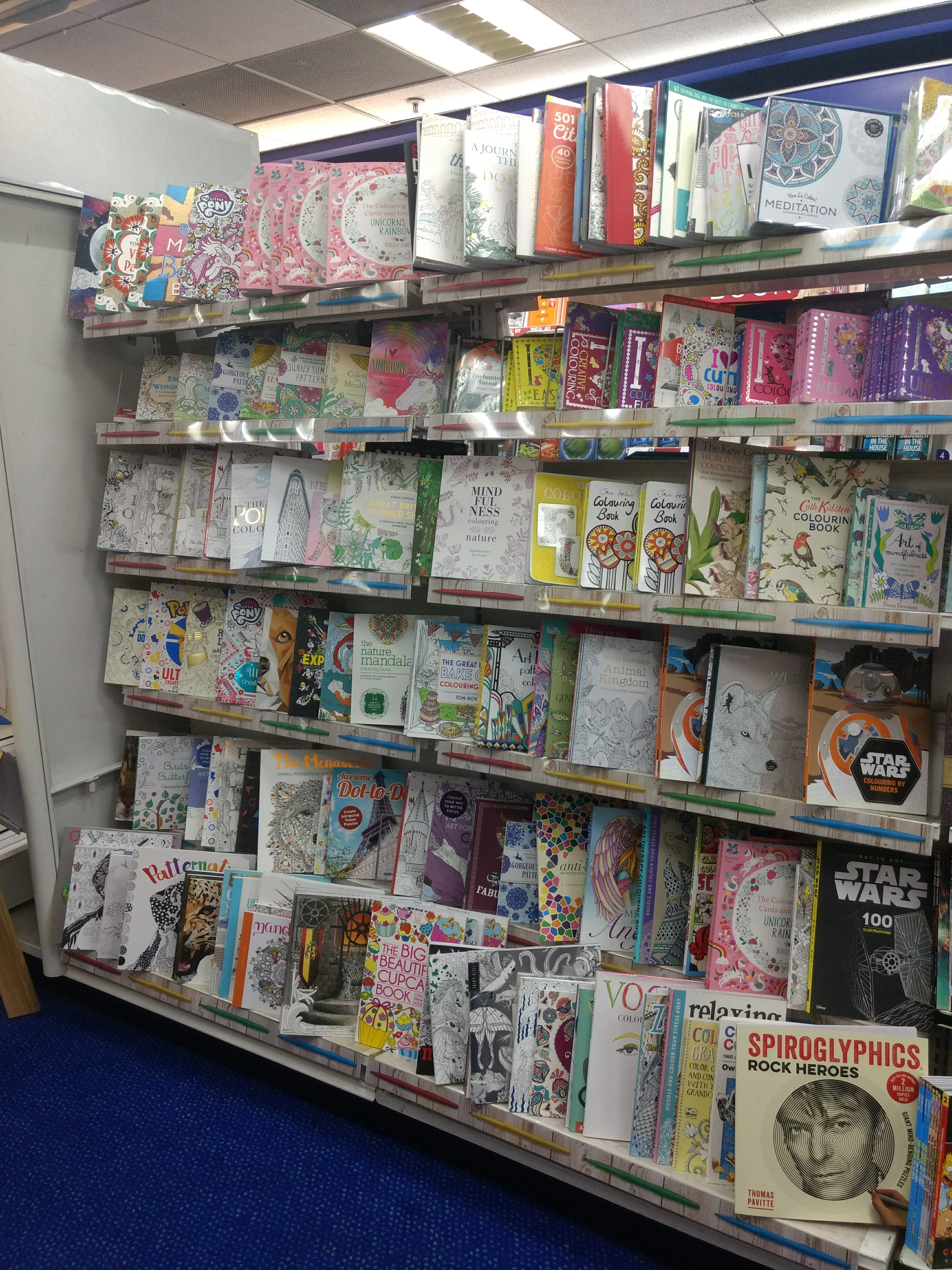 Books at W.H. Smith, Enfield, London.